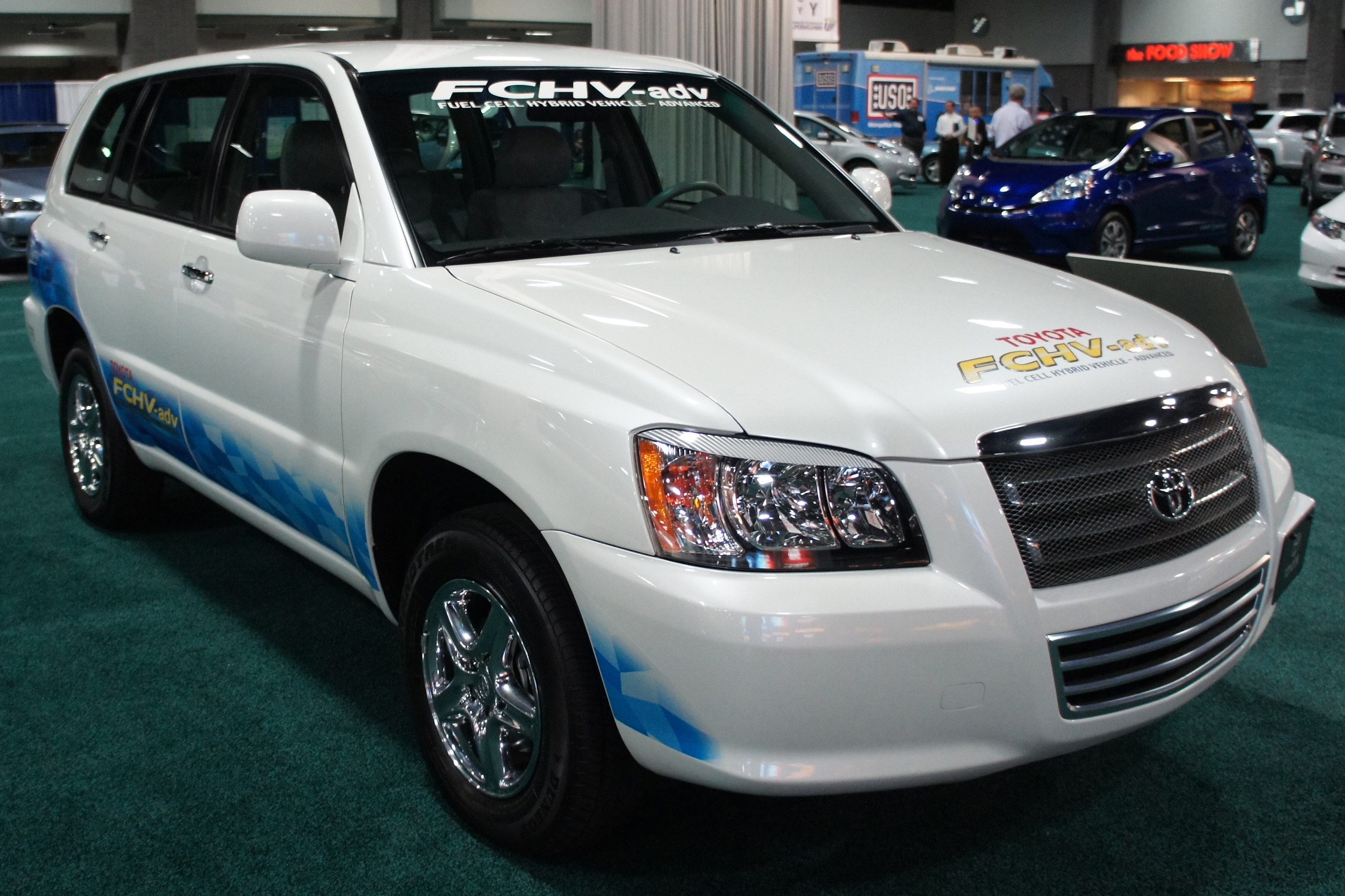 Toyota FCHV fuel-cell hydrogen vehicle concept exhibited at the 2012 Washington Auto Show (District of Columbia)